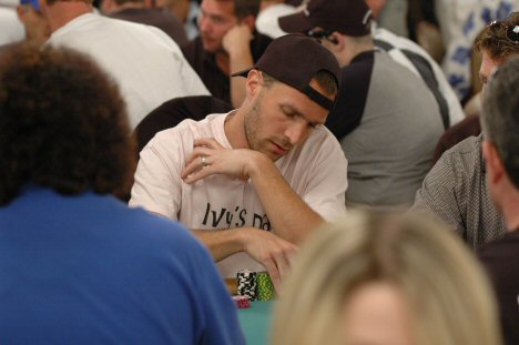 Paul Phillips in 2005 World Series of Poker - Rio Las Vegas.